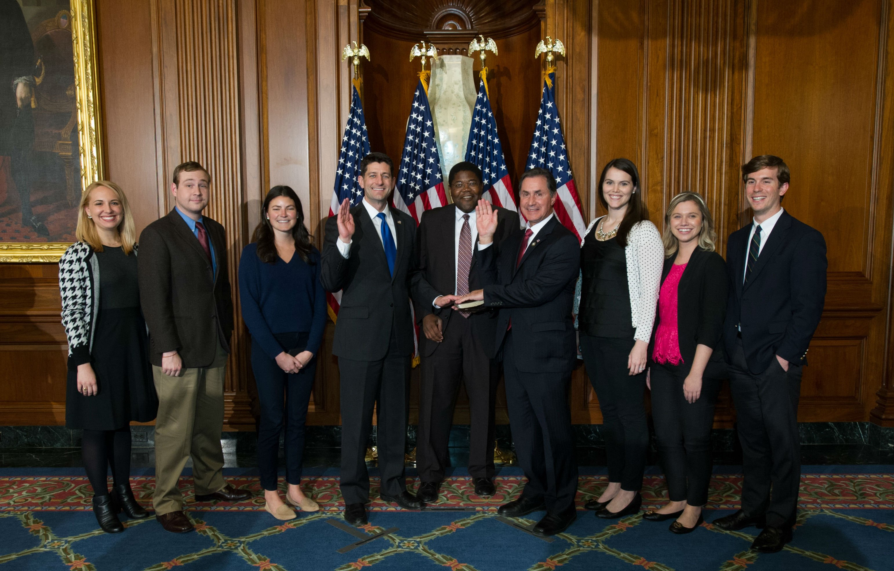 I look forward to serving the great people of Alabama’s 6th District in the 115th Congress and bringing our conservative values to D.C.